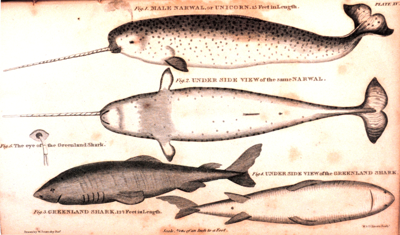 Male Narwhal or Unicorn (Monodon monoceros) and Greenland Shark (Somniosus microcephalus)